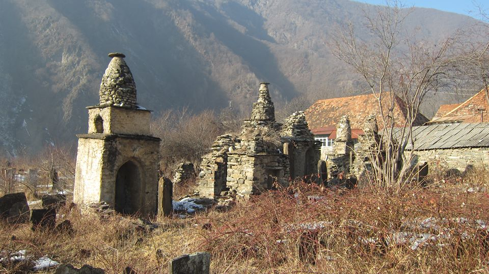 Ilisu the tombs of Sultans